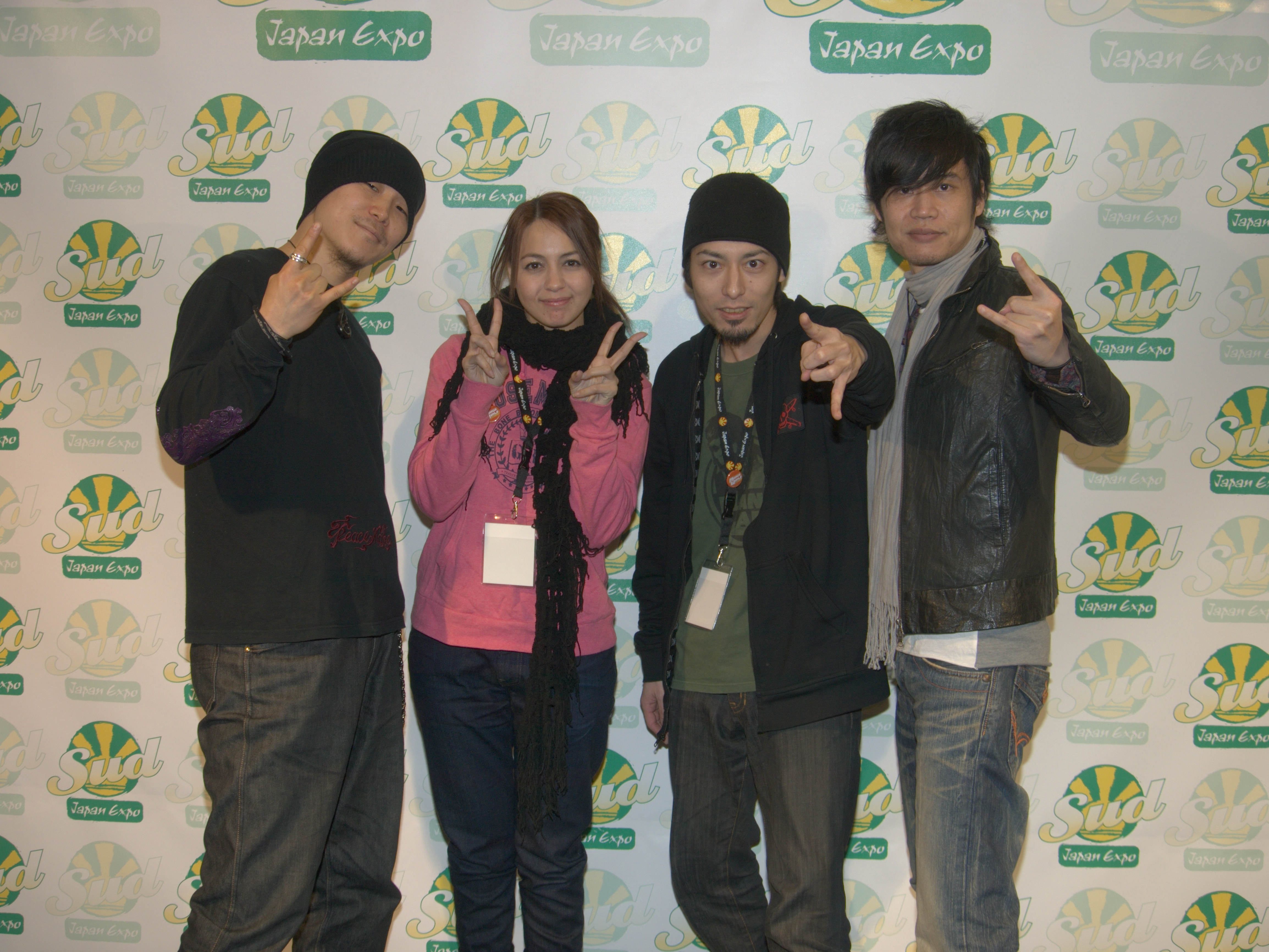 Japan Expo Festival, 3rd edition, 2011